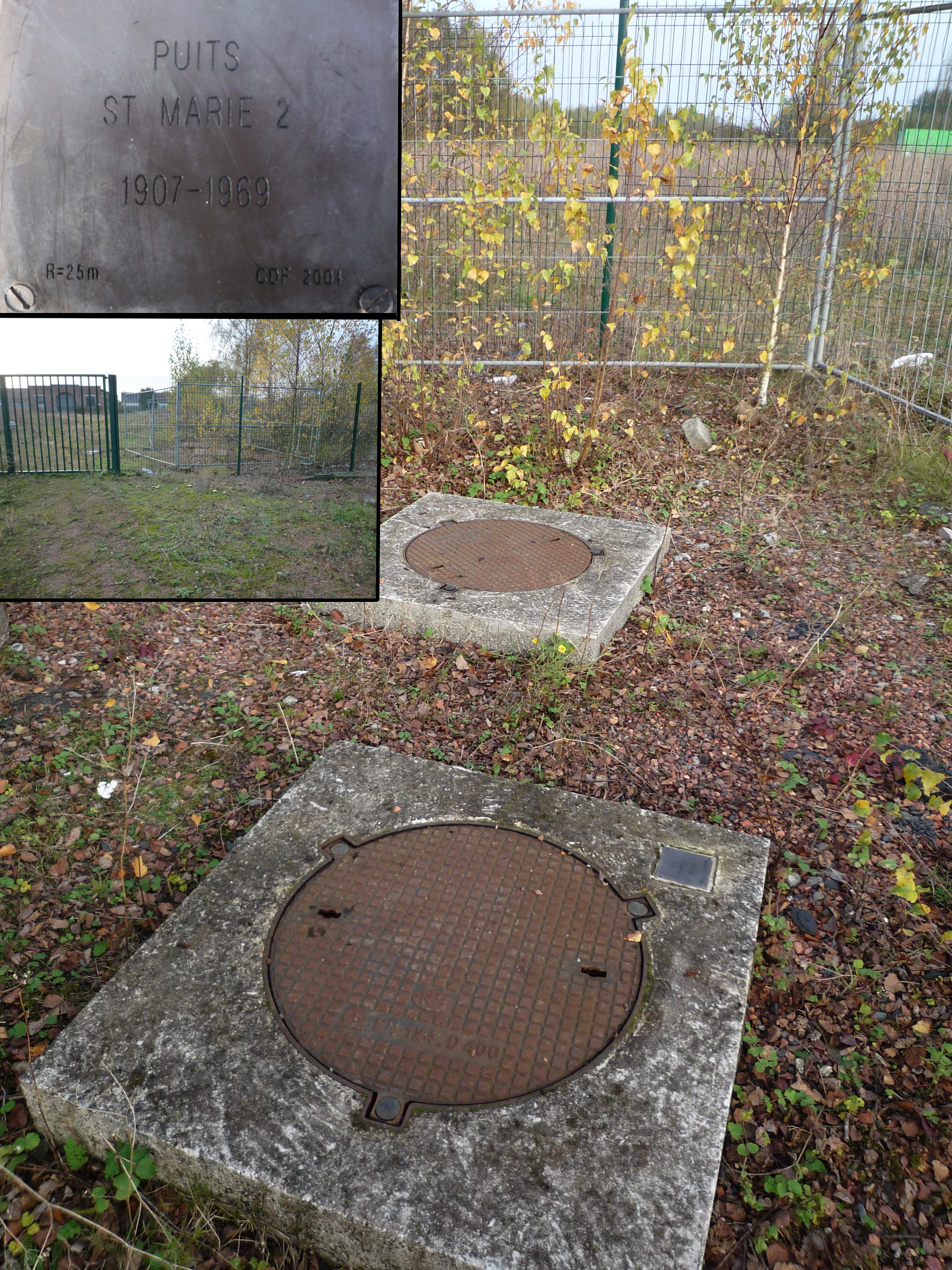 Pit of the Compagnie des mines d'Aniche, France.